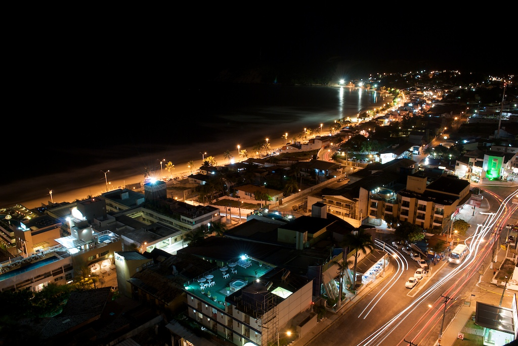 City of Natal in the state of Rio Grande do Norte, Brazil.